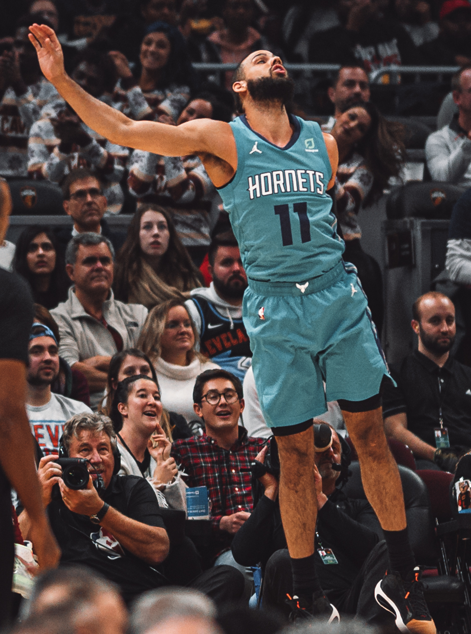 Collin Sexton of the Cleveland Cavaliers shoots over Cody Martin of the Charlotte Hornets during a December 2019 game at Rocket Mortgage FieldHouse in Cleveland.